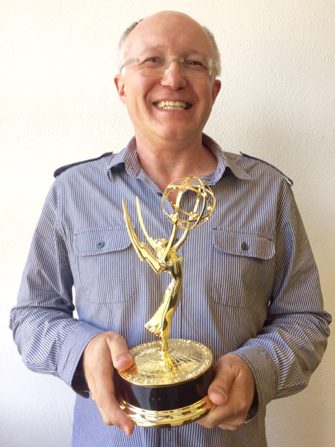 Emmy for CUBA:THE FORGOTTEN REVOLUTION